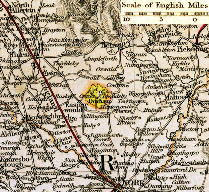 A map of the region around Crayke, in Yorkshire. Detail from plate showing the northern part of England in Betts's Family Atlas.